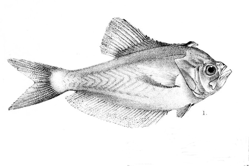 Kurtus indicus (male specimen)